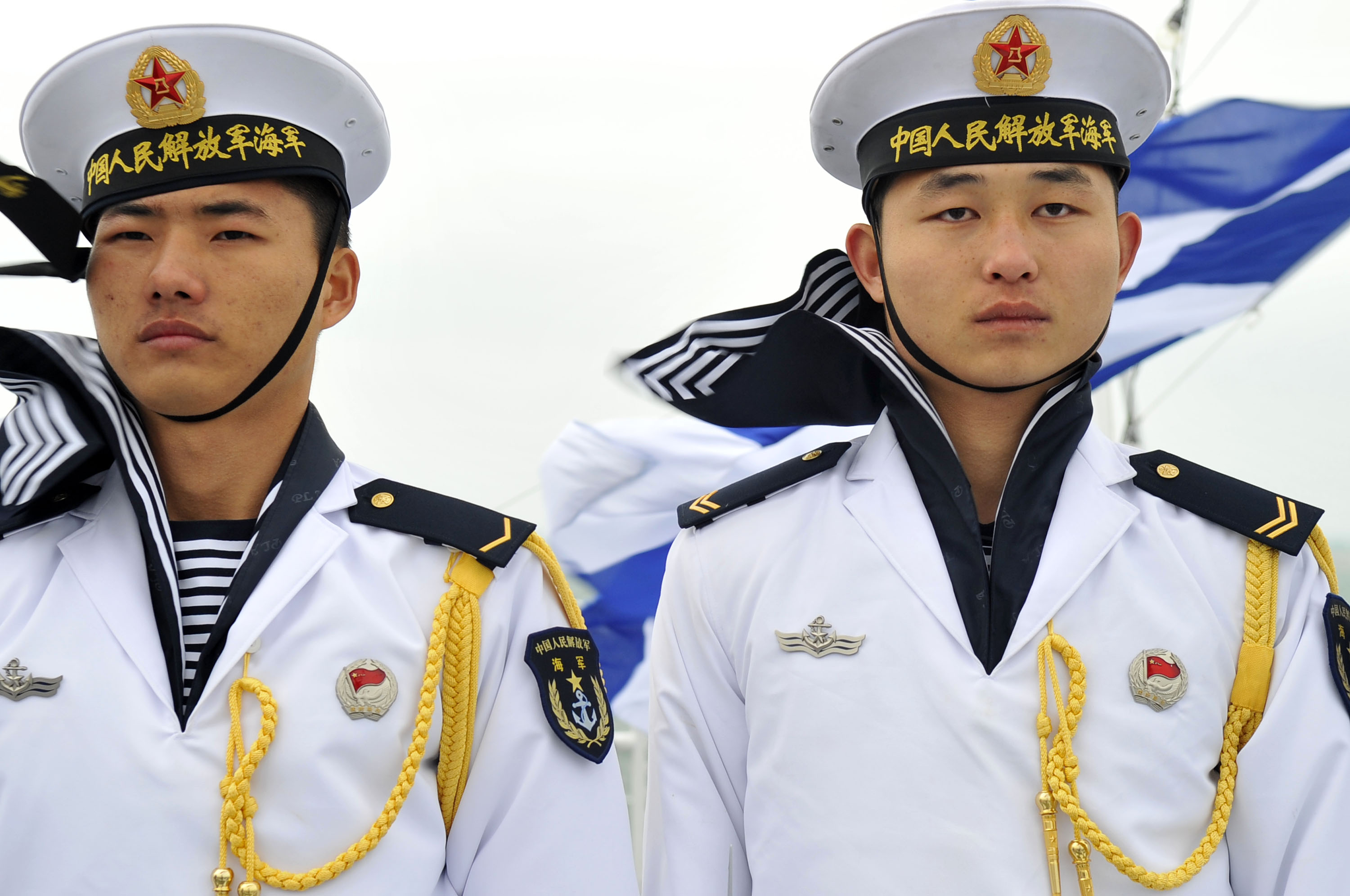 People's Liberation Army (PLA) Navy sailors stand at attention aboard the PLA Navy type 920 hospital ship Daishandao (AHH 866) in Quingdao, China, April 20, 2009, during a U.S. Navy Chief of Naval Operations U.S. Navy Adm. Gary Roughead visit to the PLA Navy headquarters. Roughead visited China to participate in the 60th anniversary of the founding of the PLA Navy, to foster naval and military relationships between the two nations, and to explore areas for enhanced cooperation.